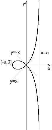 Strophoid.